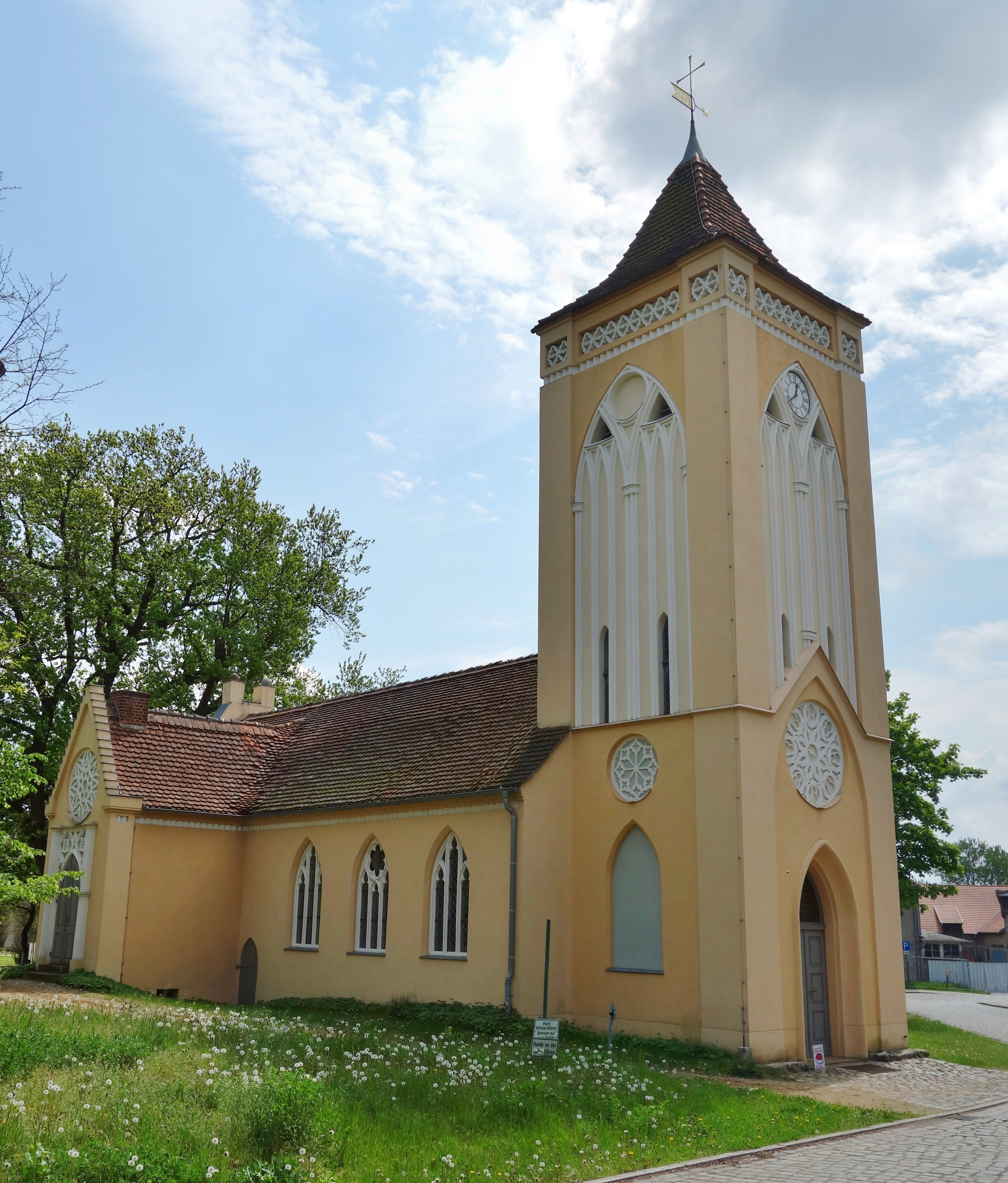 North-western view of church in Paretz, Ketzin municipality, Havelland district, Brandenburg state, Germany